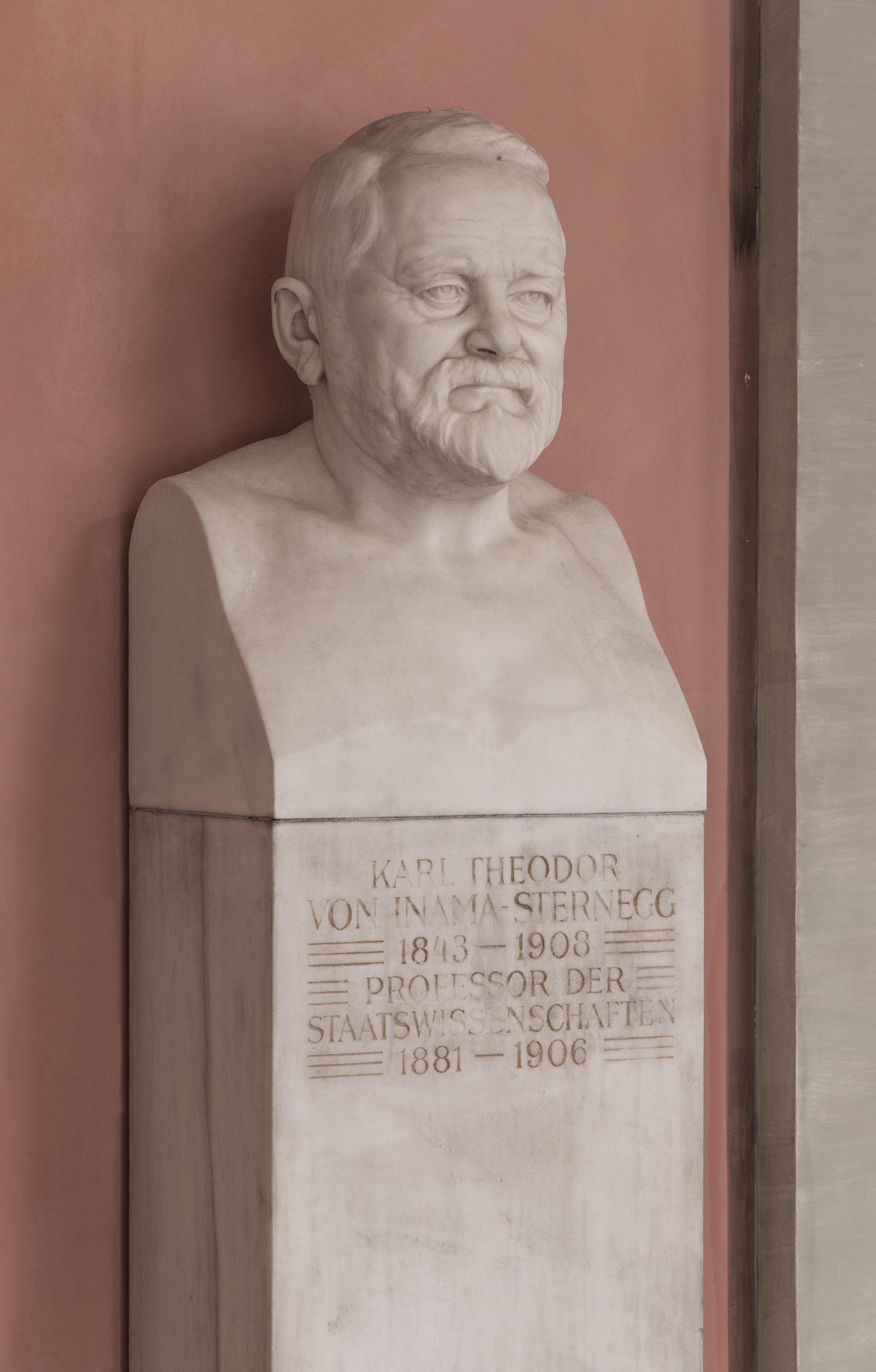 Theodor Inama von Sternegg (1843-1908), bust (white marble) in the Arkadenhof of the University of Vienna, (Maisel# 11). Artist: Edmund Klotz (1855-1929), unveiled 1917